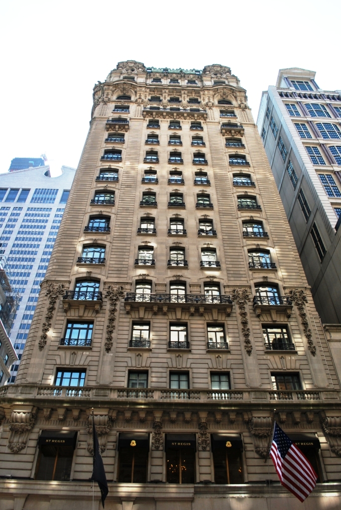 The St. Regis Hotel at 2 East 55th St., New York, New York, USA.